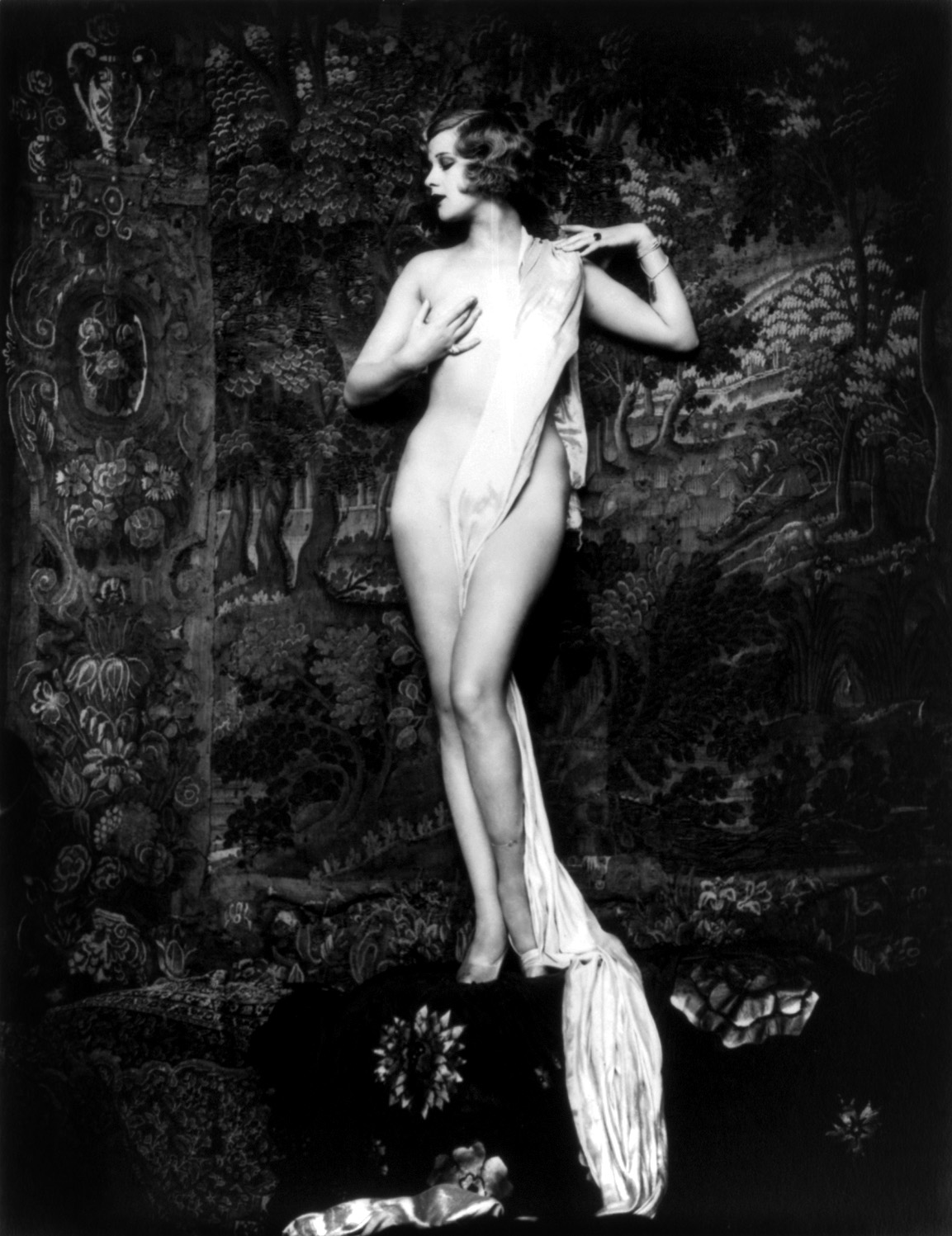 Hazel Forbes (nee Hazel Froidevoux), Miss Long Island, Miss United States in the Paris International Beauty Pageant of 1926 (at age 16), Ziegfeld girl, actress, dancer and millionairess; full-length portrait, standing, facing left, nude, with cloth draped over part of her body.